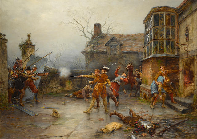 The painting "The Gunpowder Plot: The conspirators’ last stand at Holbeach House" by Ernest Crofts.